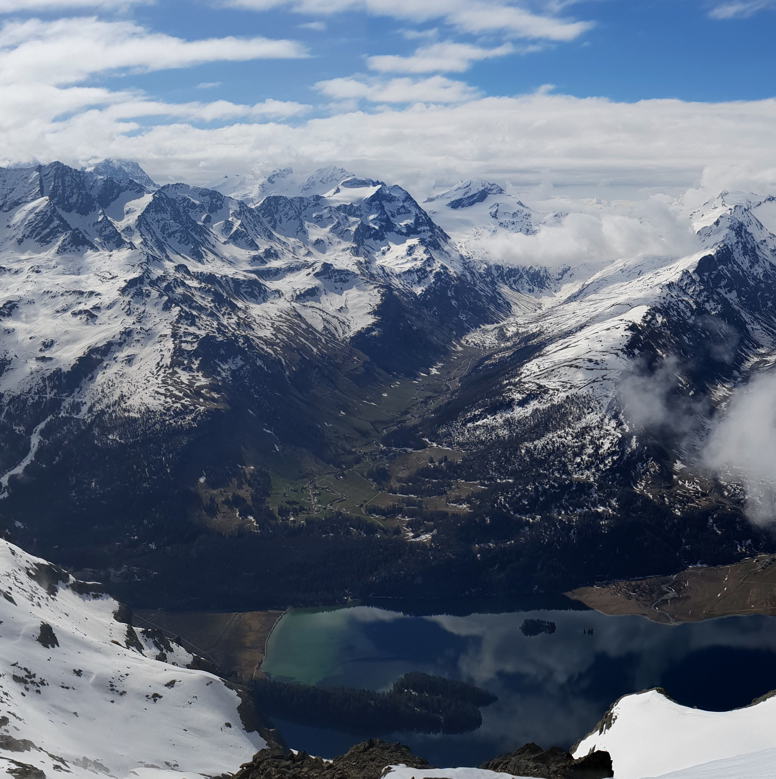 Val Fex seen from from Piz Lagrev (Surses - Sils im Engadin/Segl, Grisons, Switzerland)